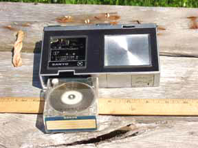 The micro pack recording system, intended for dictation